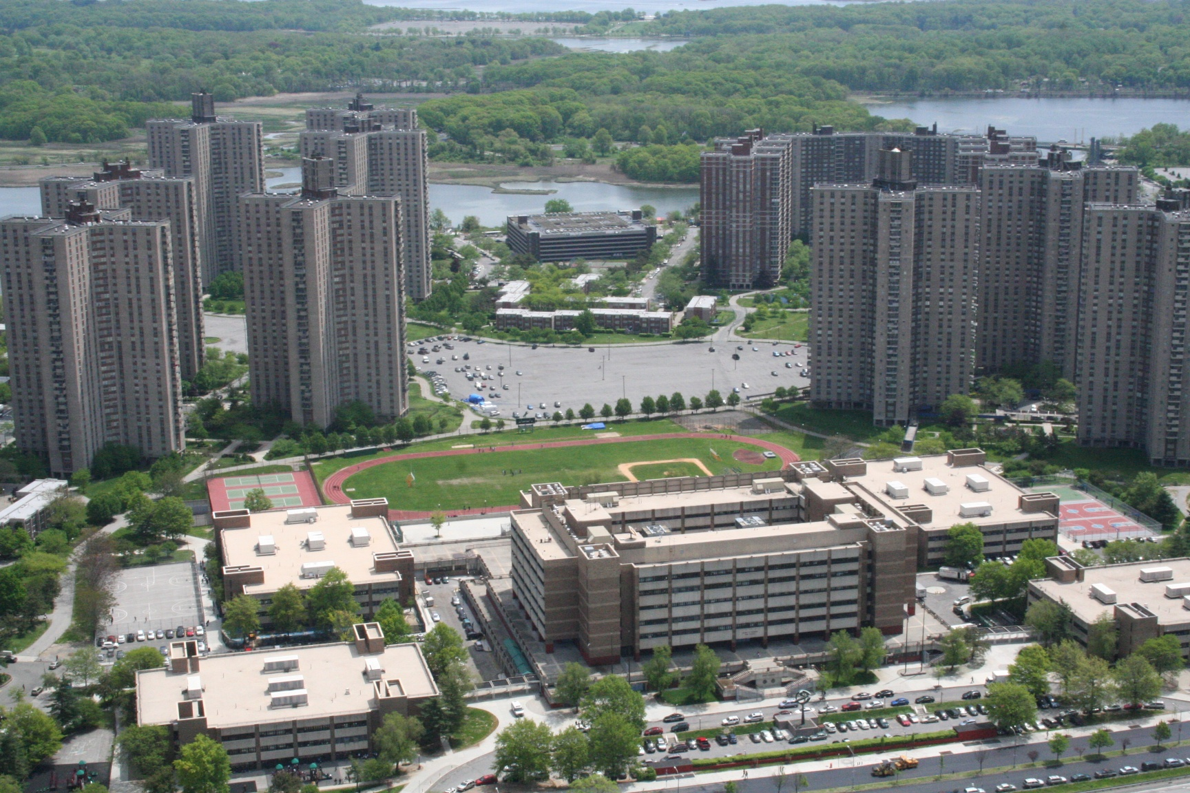 Aerial image of the Harry S Truman High School (X455) campus and surrounding Co-Op City Neighborhood in Bronx, NY